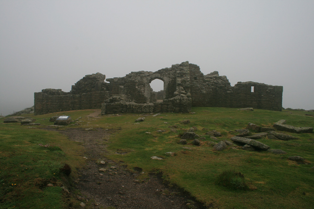 King Charles' Castle Actually built between 1550 and 1554. Though a surrounding low earthwork defence was added during the Civil War - Scilly was initially Royalist.